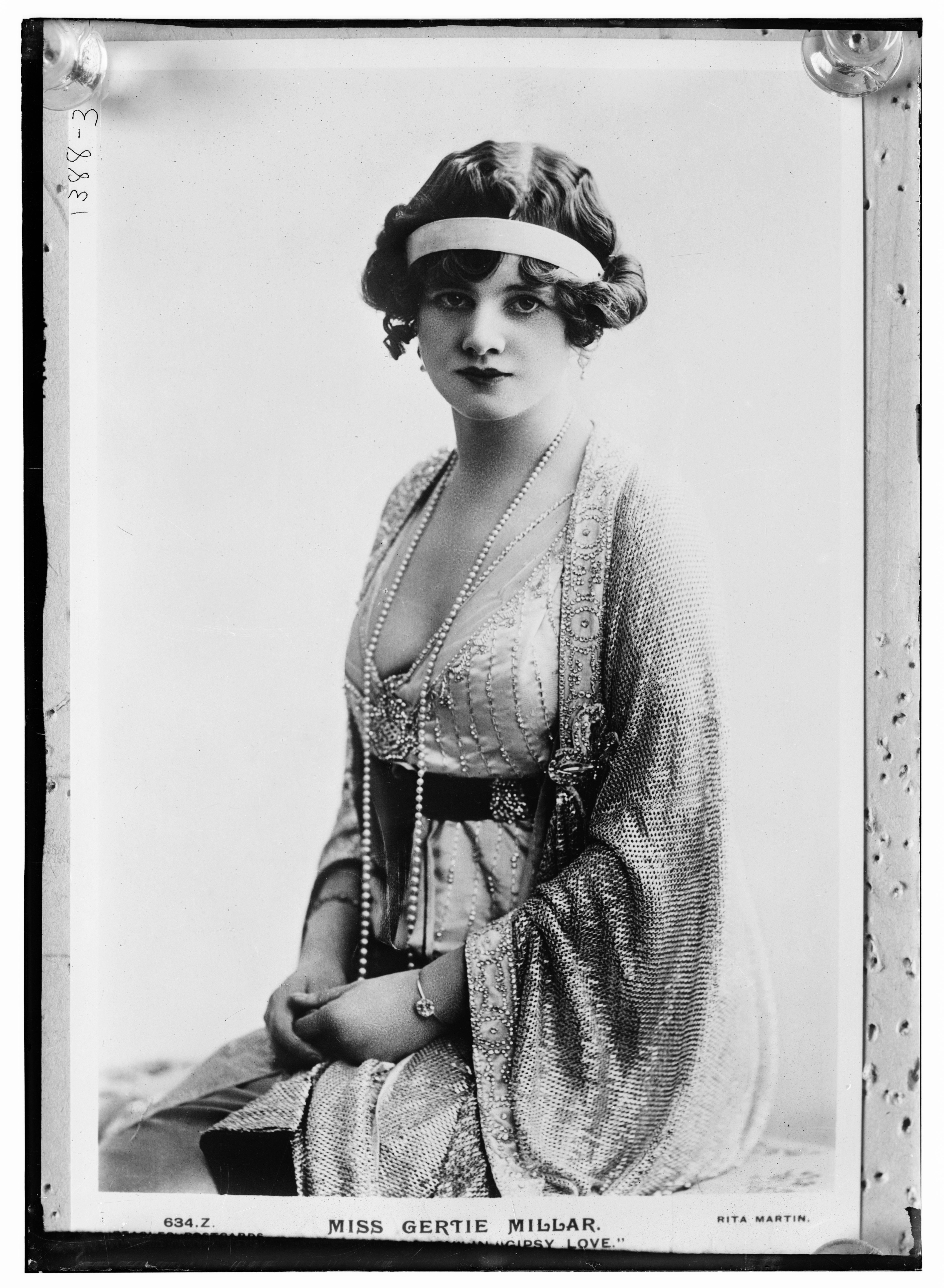 Title: Miss Gertie Millar Abstract/medium: 1 negative : glass ; 5 x 7 in. or smaller.